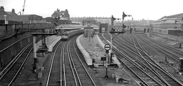 Bank Hall Station. View SE over electrified Southport Lines and adjacent sidings, towards Sandhills and Liverpool Exchange.